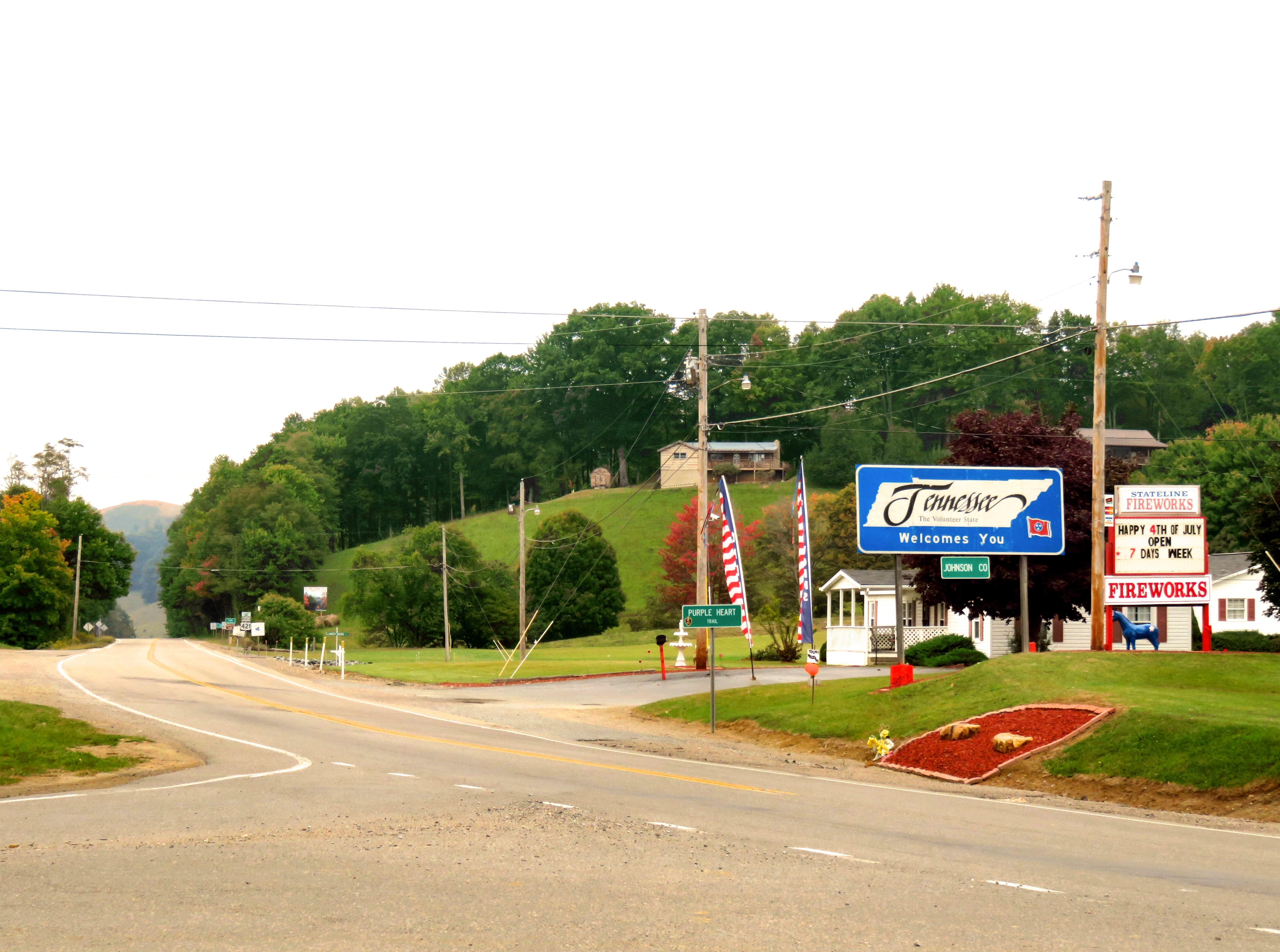 U.S. Route 421 at the Tennessee-North Carolina state line, in the southeastern United States.